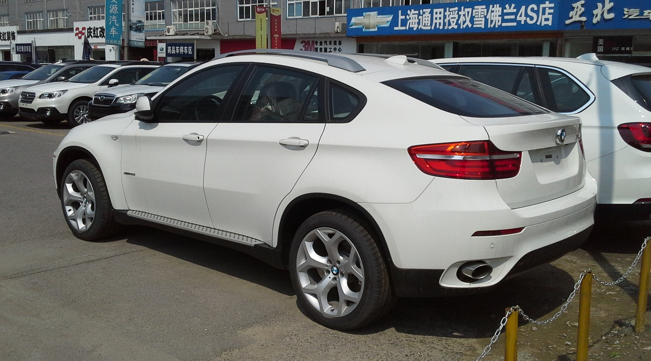 BMW X6 E71 facelift photographed in Beijing, China.